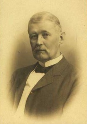 Gustav Ludvig Wad (1854-1929), Danish archivist and historian